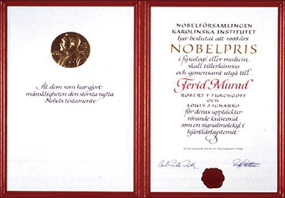 scanned nobel diplom